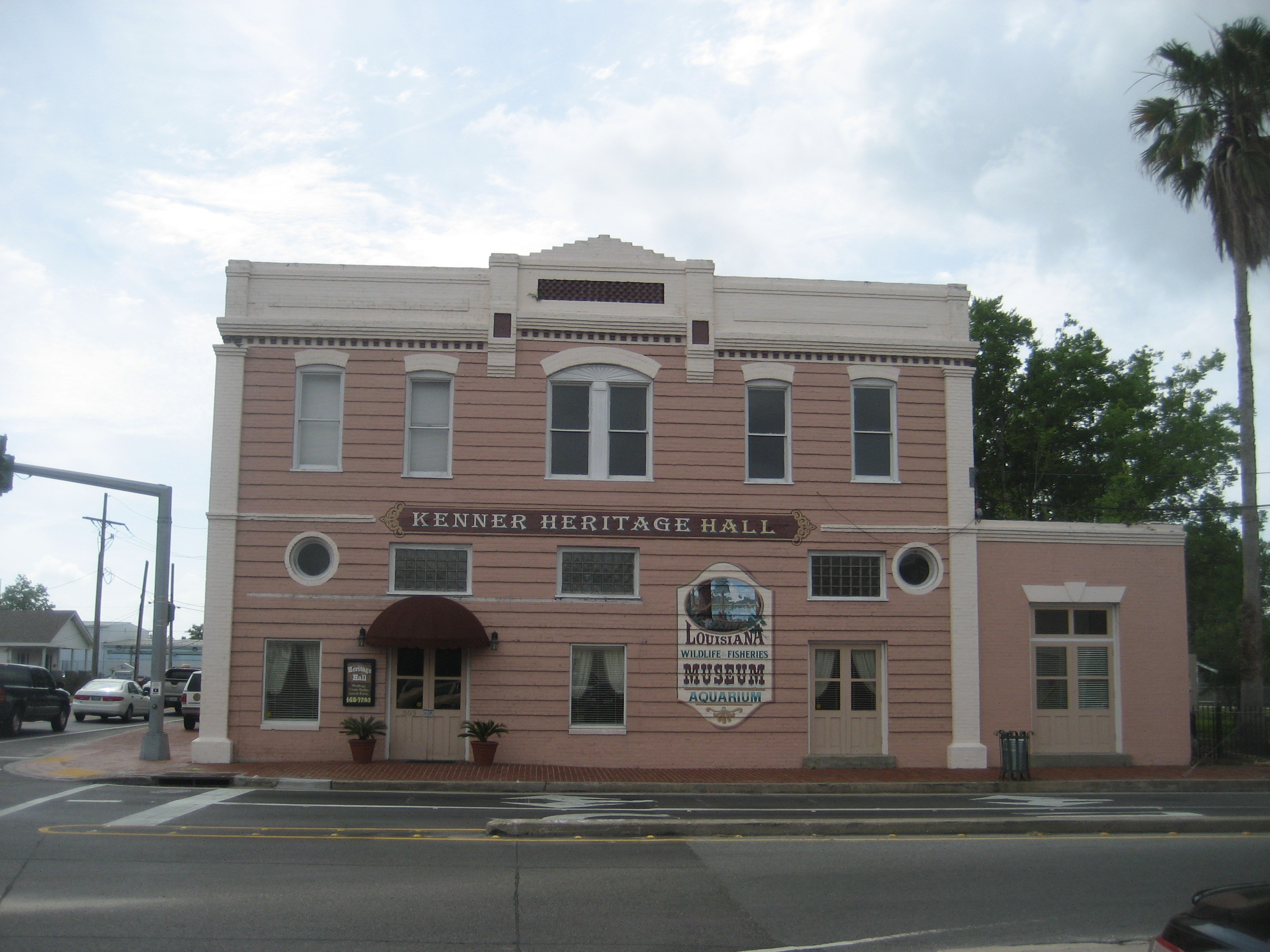 Rivertown, Kenner, Louisiana. Kenner Heritage Hall.